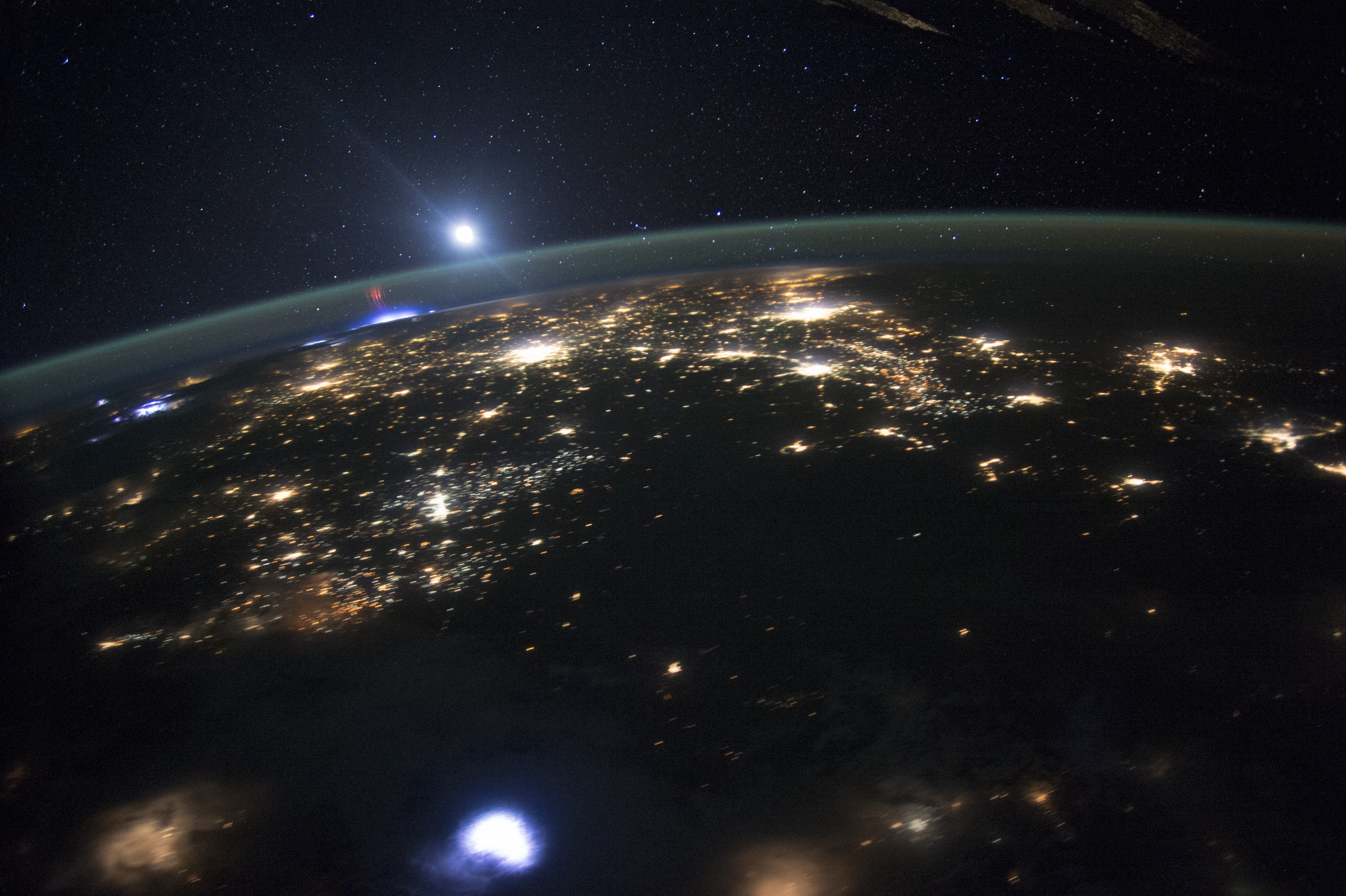 A red sprite above the white light of an active thunderstorm (image top left)... Sprites are major electrical discharges, but they are not lightning in the usual sense. Instead, they are a cold plasma phenomenon without the extremely hot temperatures of lightning that we see underneath thunderstorms. Red sprites are more like the discharge of a fluorescent tube. Bursts of sprite energy are thought to occur during most large thunderstorm events....